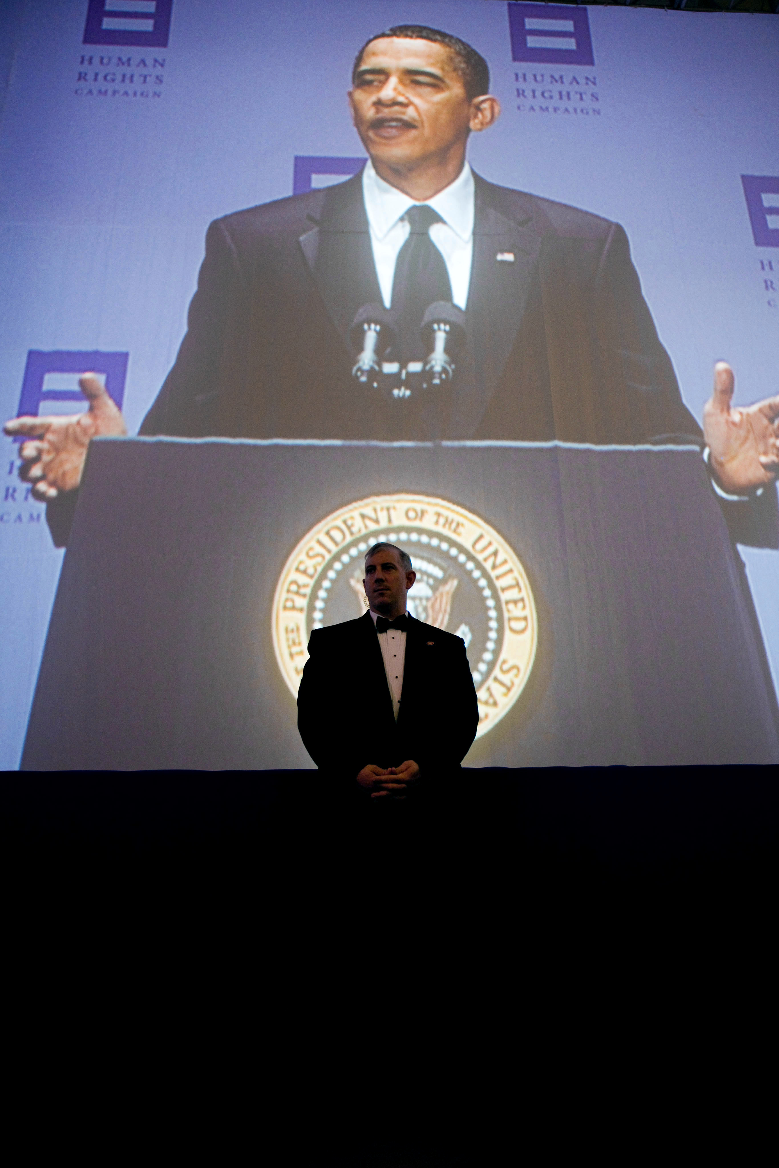 A U.S. Secret Service agent stands post as President Barack Obama, projected on a screen, delivers remarks during the Human Rights Campaign dinner, at the Walter E. Washington Convention Center in Washington, D.C, Oct. 10, 2009.